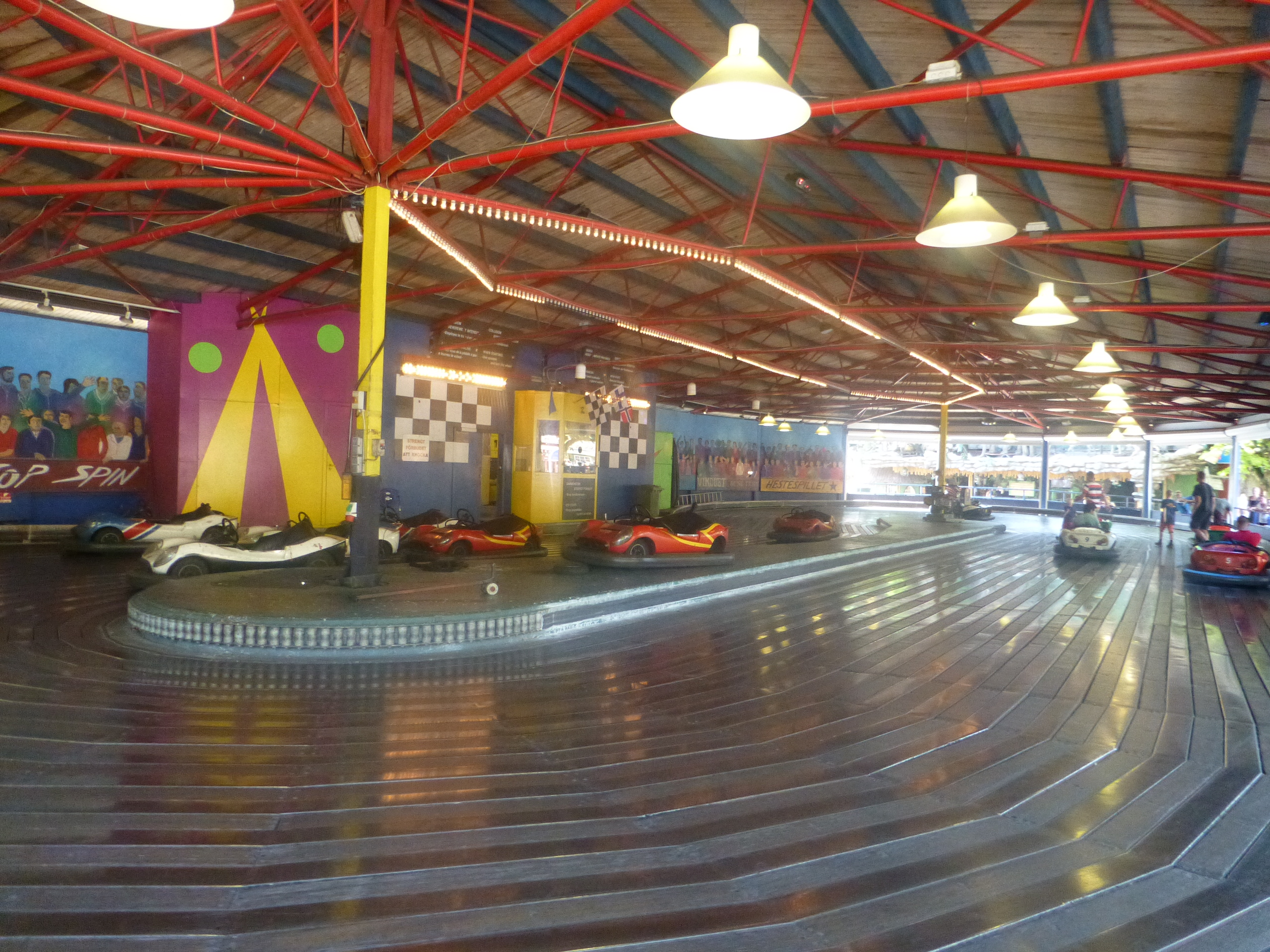 The amusement park Dyrehavsbakken north of Copenhagen. The ride Rodeobanen.